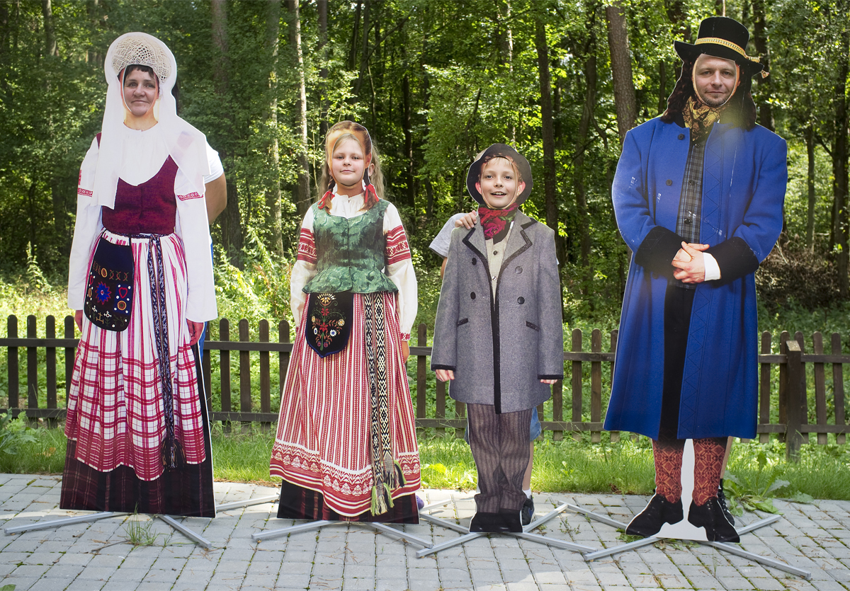 Lietuvininkai in National costume mock-ups outside the Visitor Centre